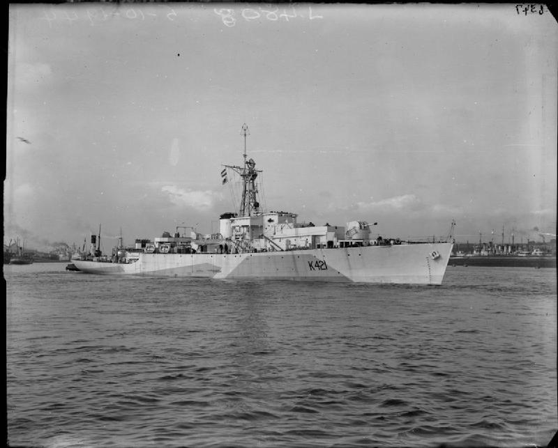 Photograph of British frigate HMS Loch Shin.